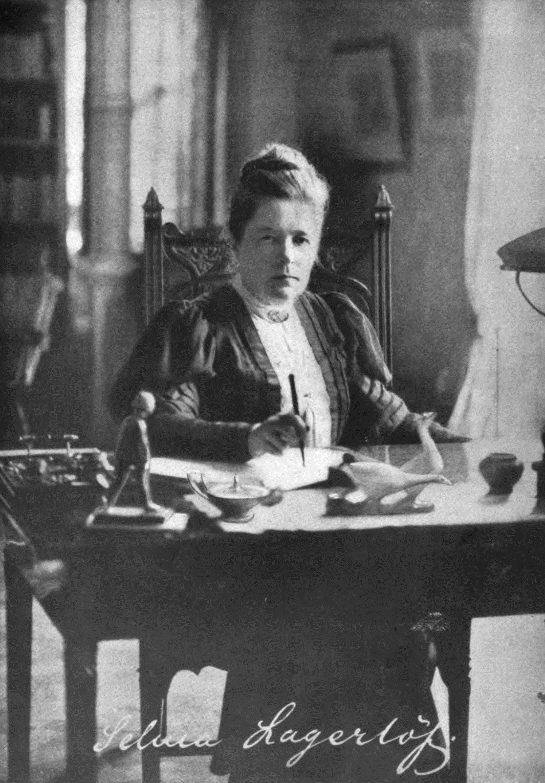 Selma Lagerlöf